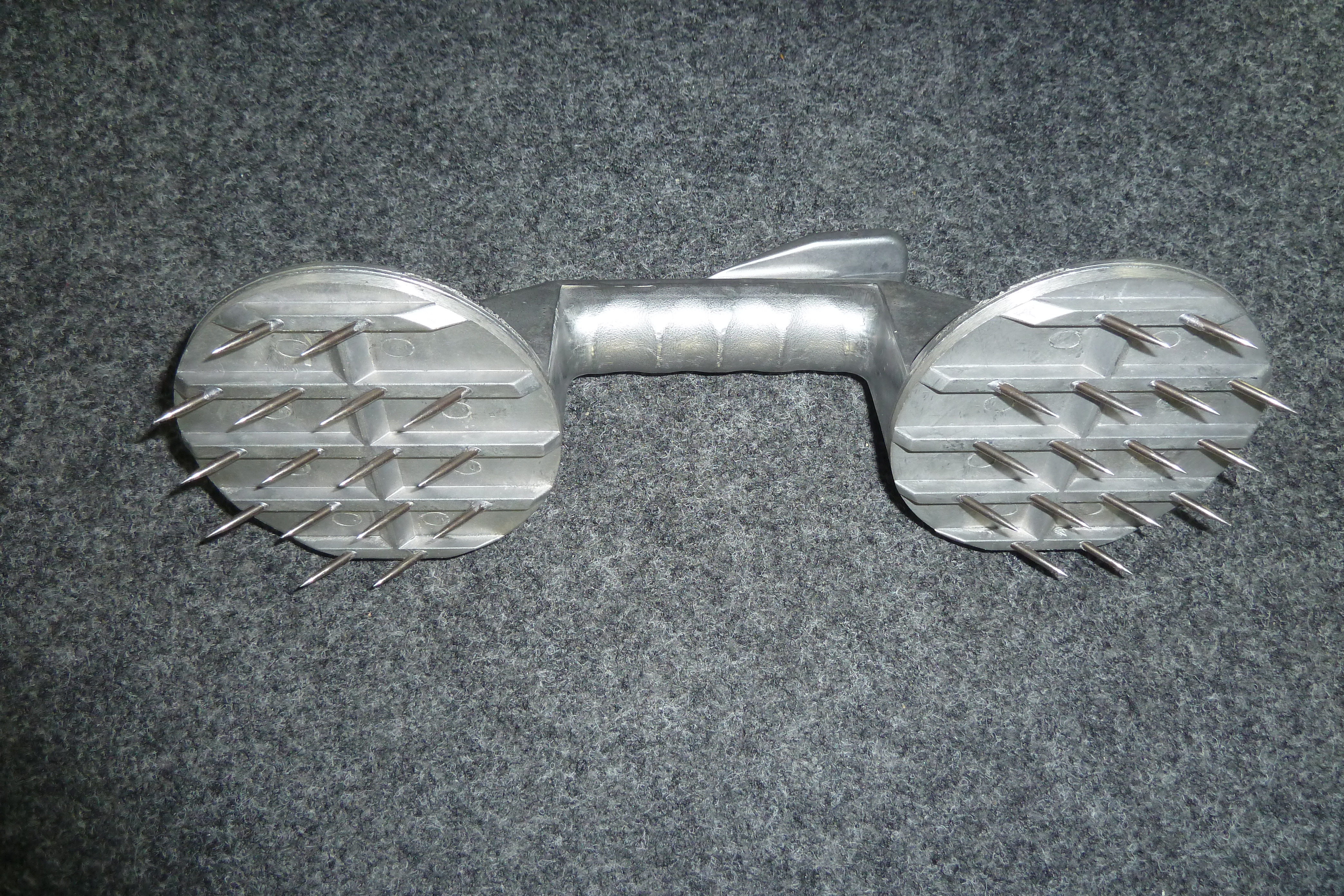 Closed panel lifter, side view